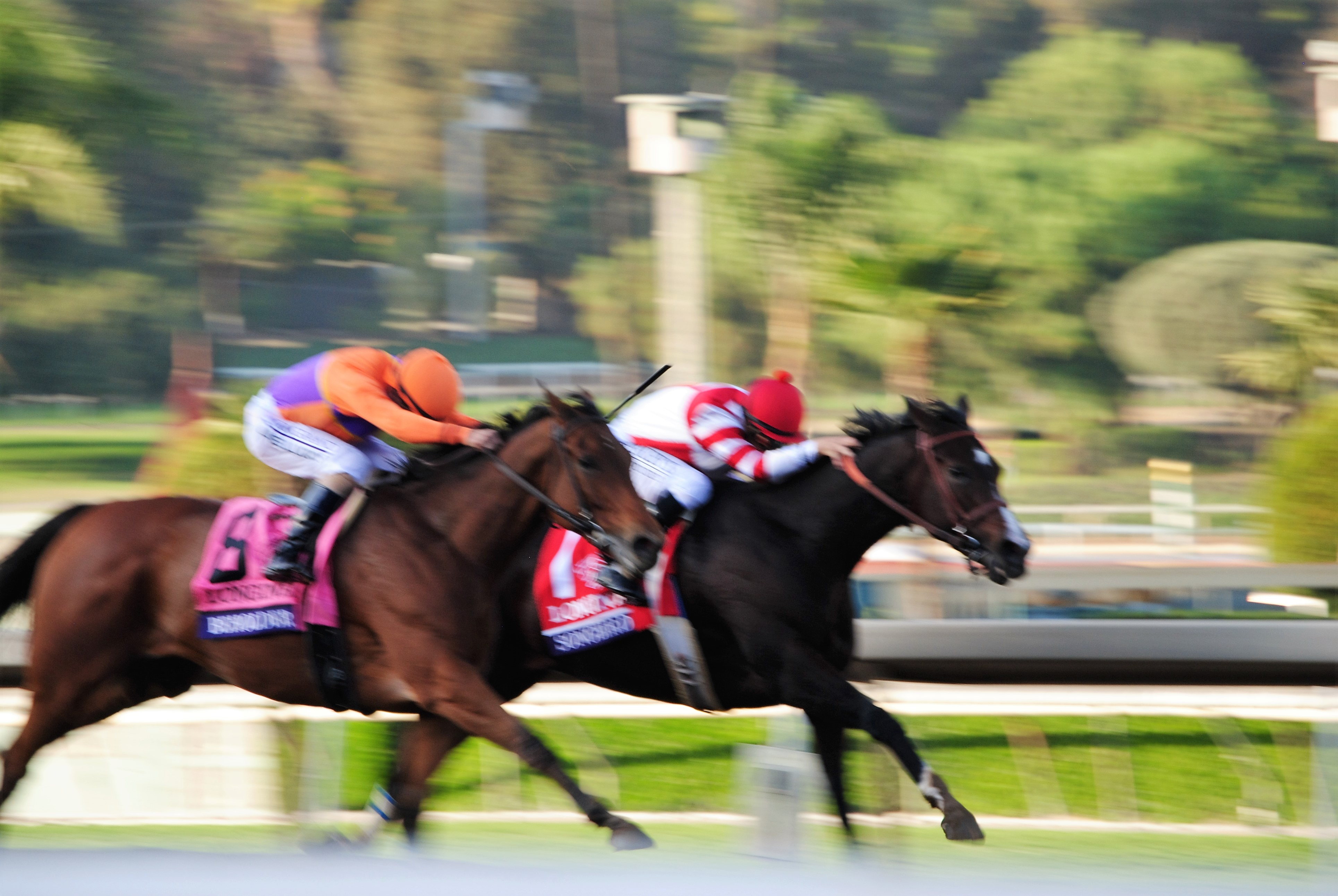 In midstretch of the Breeders' Cup Distaff, Songbird leads by about half a length